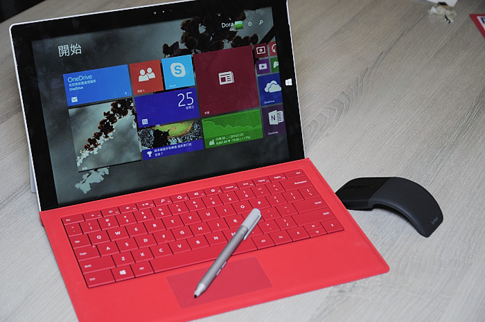 Surface Pro 3 with Type Cover, Surface Pen, and Arc Mouse